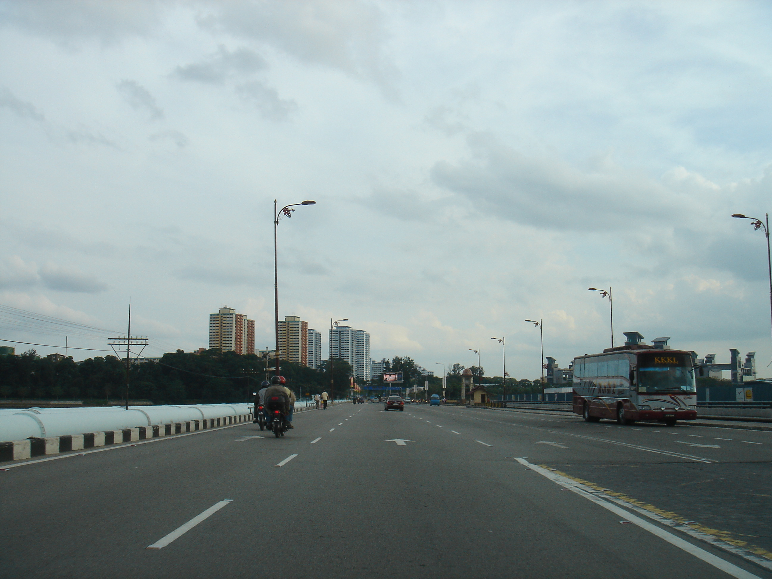 Johor-Singapore Causeway, across the Straits of Johor.